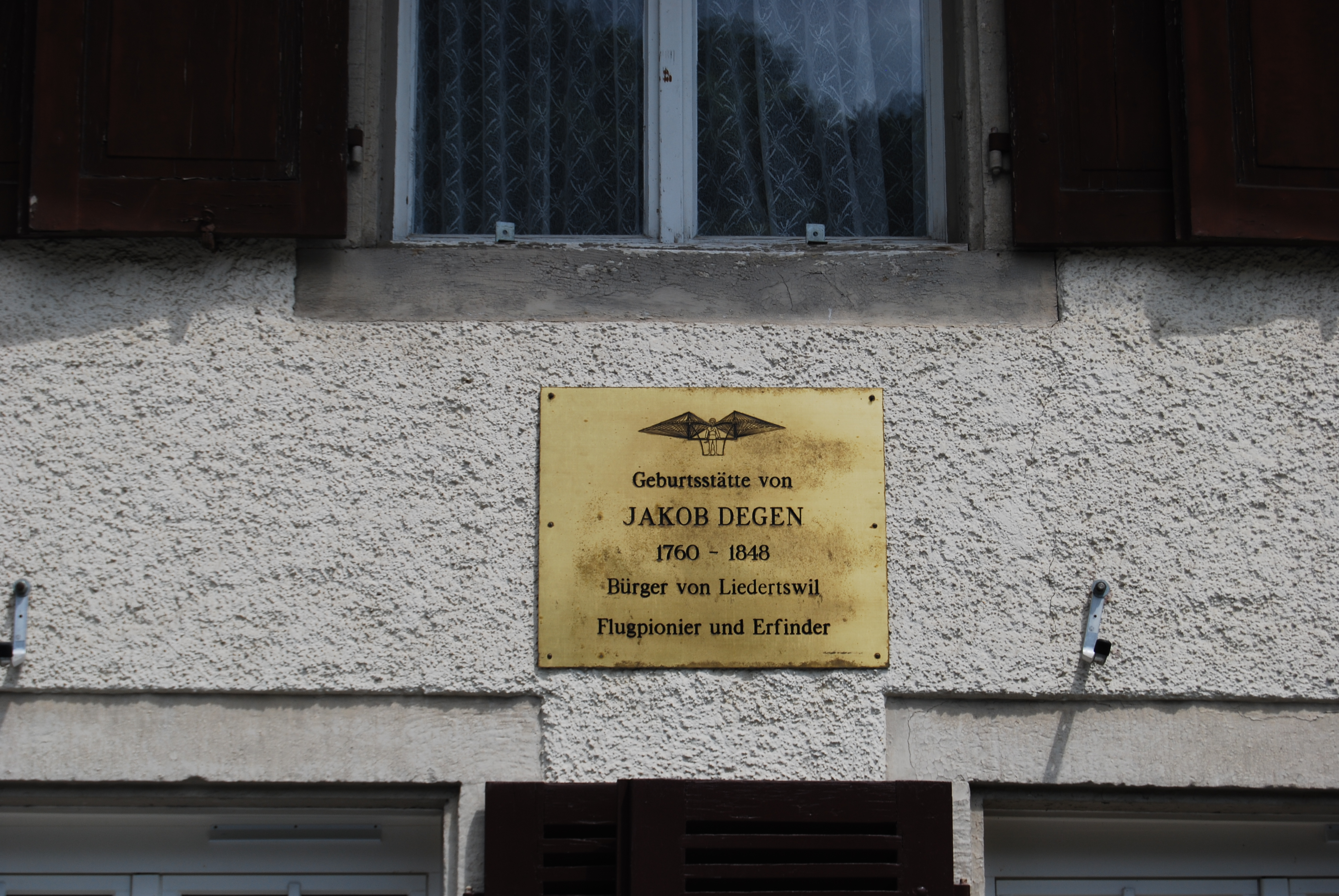 Liedertswil, canton of Basel-Country, Switzerland